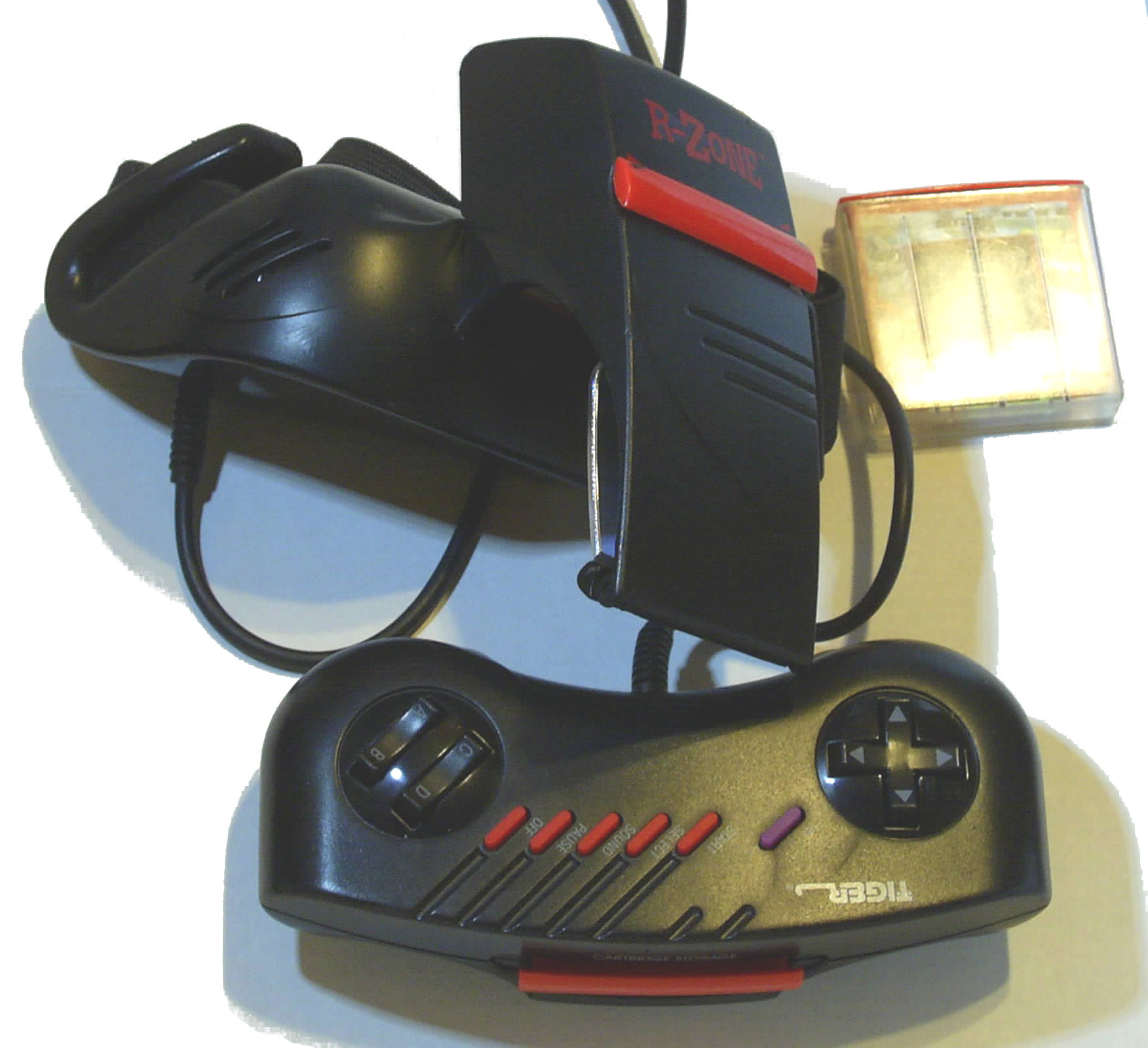 R-Zone Headgear